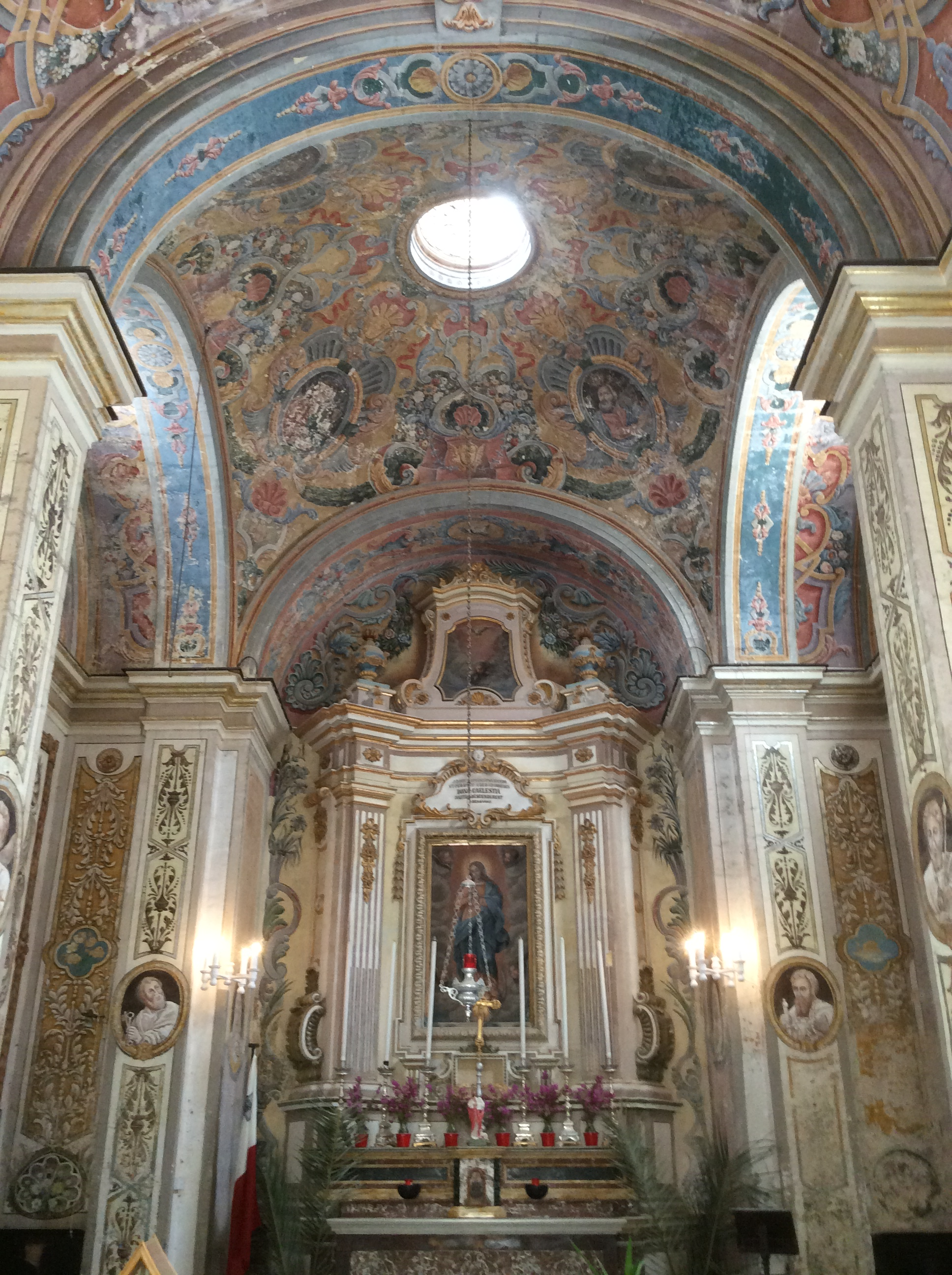 Rabat walk 2017